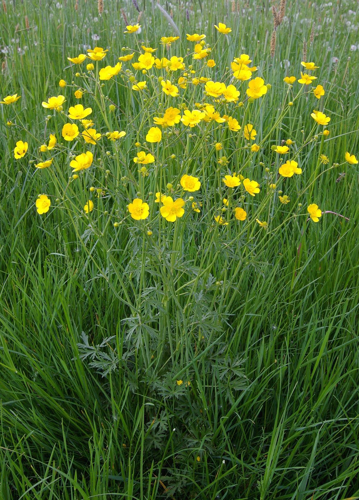 Flowering plant of Ranunculus acris (Ranunculaceae).